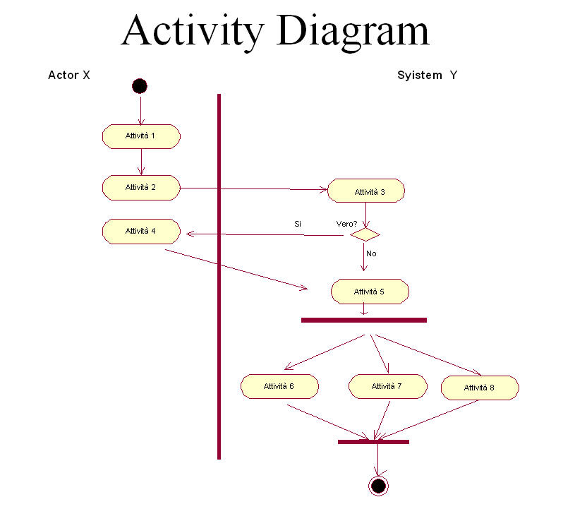 Activity diagram